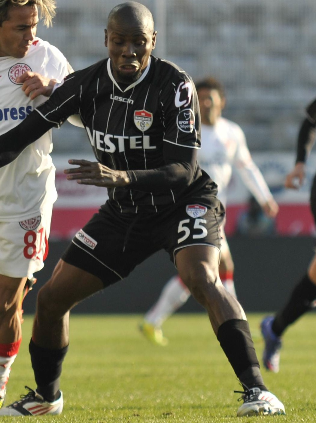 Photo : Koray Geçgel & Murat Özgen